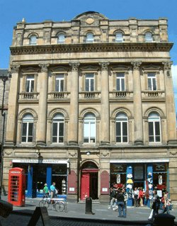 A picture of the front of Carrubbers Christian Centre on the Royal Mile in Edinburgh.